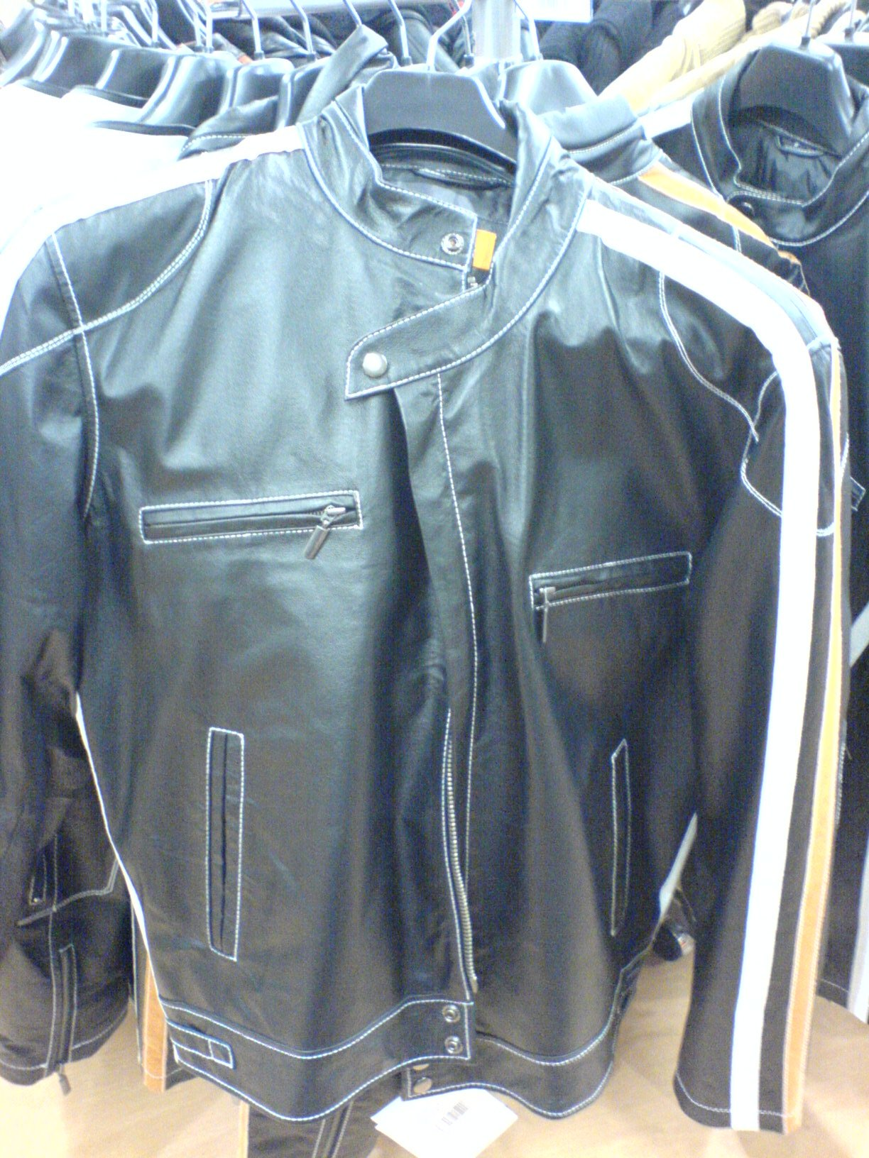 leather jacket